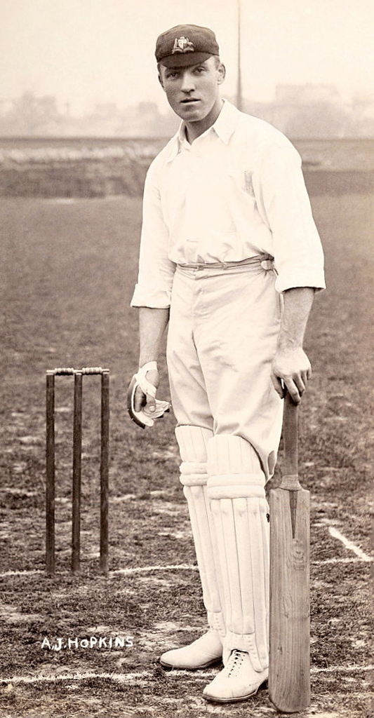 Australia cricketer Bert Hopkins, circa 1908.